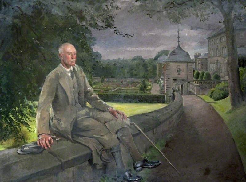 William Bruce Ellis Ranken : Sir John Stirling Maxwell (1866-1956), 10e baronnet; Glasgow Museums.